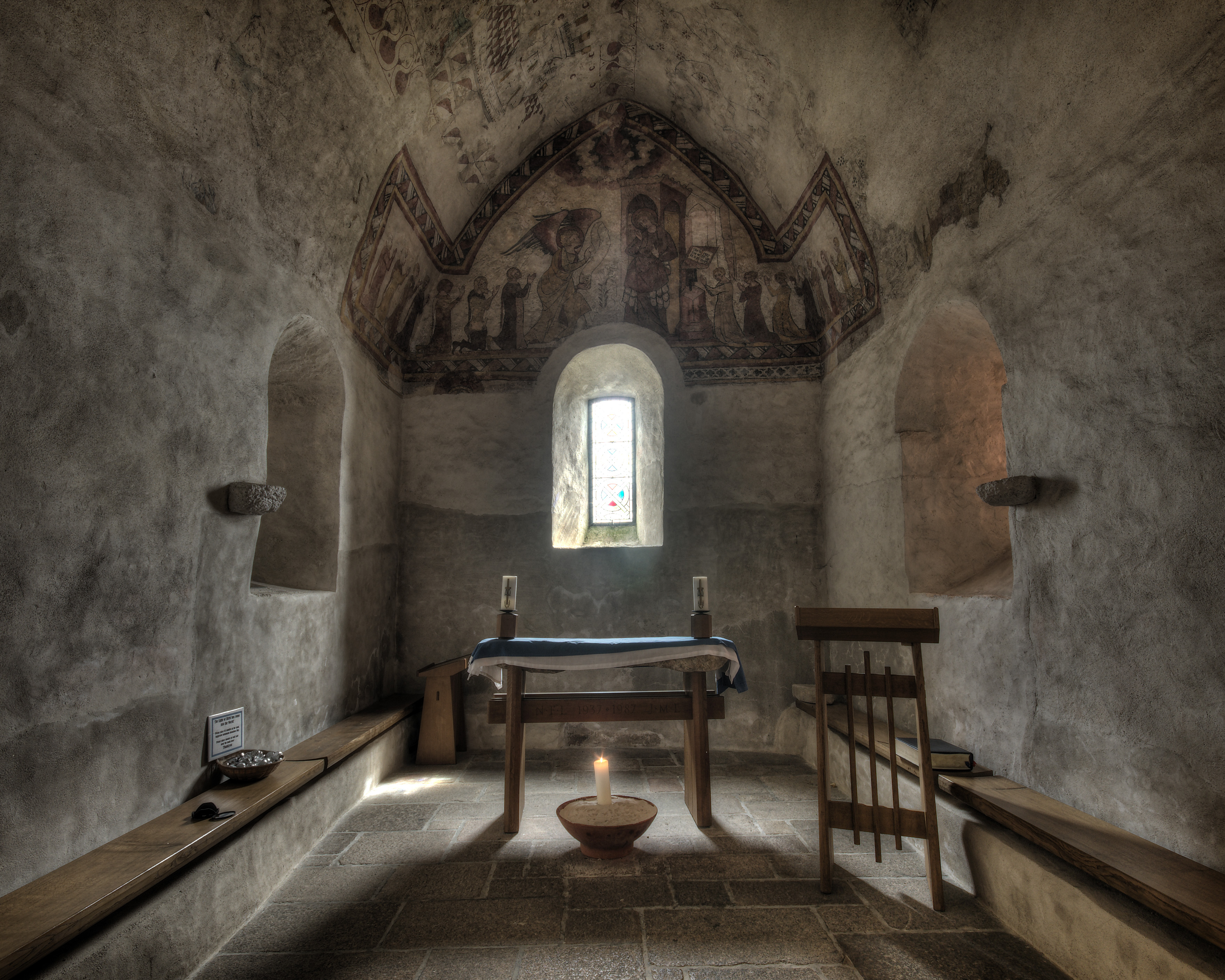 in St Brelade's Bay, Jersey. Originally dating from the 11th century, the frescoes are 14th century. See here for a Wikipedia Article. View On Black (recommended).